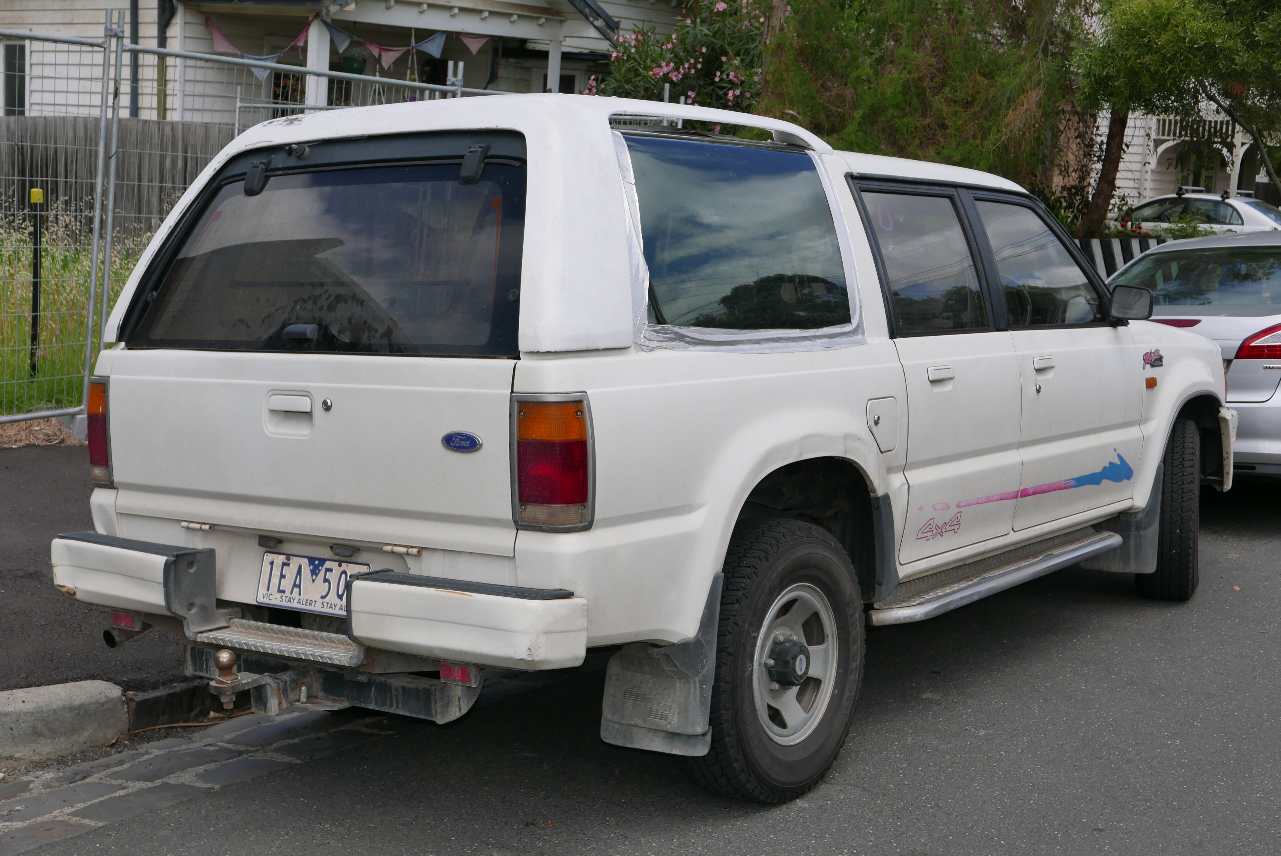 1991 Ford Raider wagon. Photographed in Brunswick East, Victoria, Australia. Vehicle registration enquiry results Jurisdiction Victoria Registration 1EA5QO Chassis code JC0AAASGHCMU28426 Engine code G6245005 Compliance date 1991-11 Year of manufacture 1991